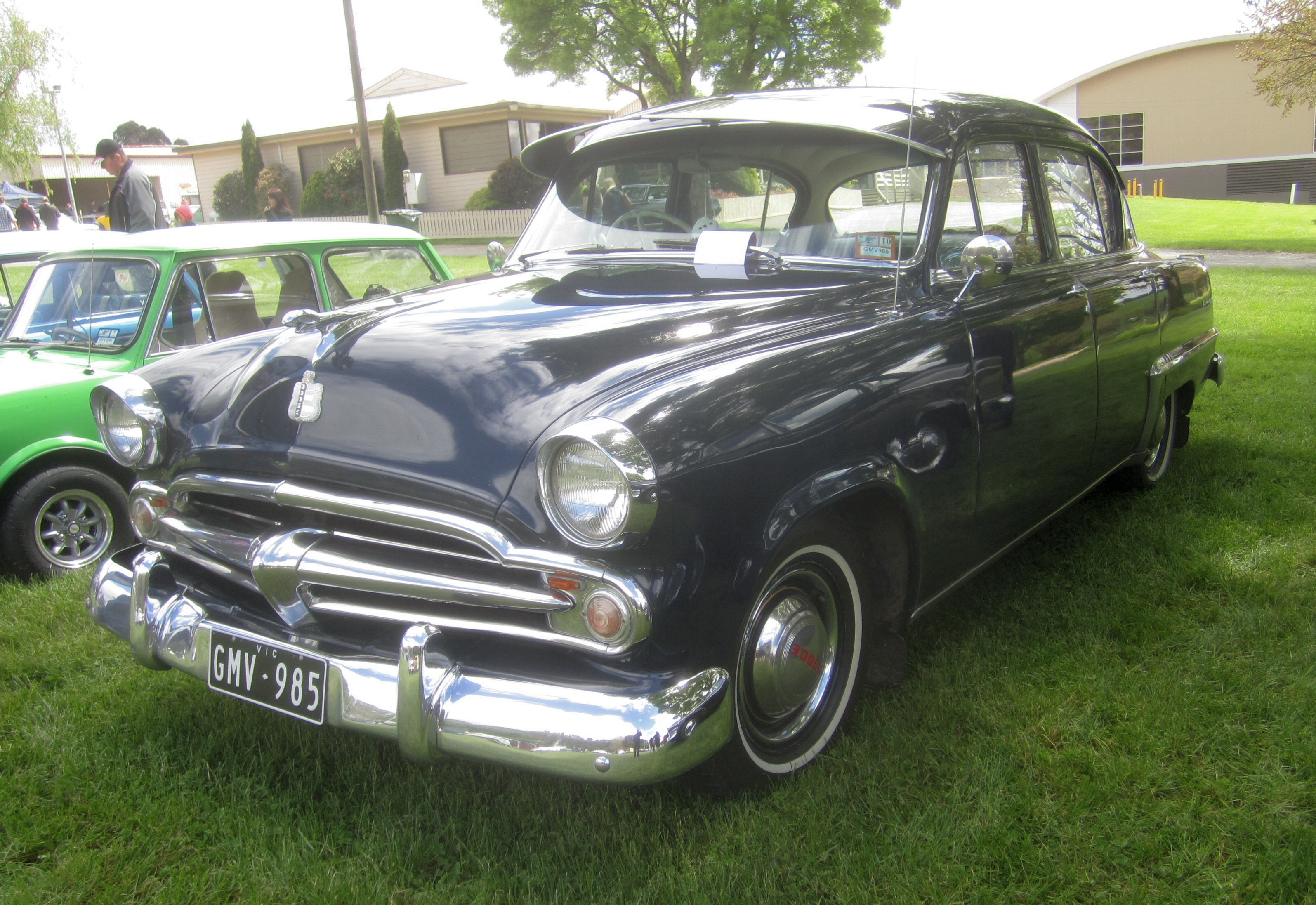 The Dodge Royal line was added above the Coronet in 1954. Dodge was putting more luxury into all of its models which included the Meadowbrook, Coronet and new Royal lines. Still, styling changes for 1954 were modest. The chrome molding on the hood lip was wider than on the 1953 models and a large chrome upright in the center of the grille replaced the five vertical dividers used previously. Available in Sedan or Coupe. Engines; 230 cu in 6 cyl or 241 cu in V8